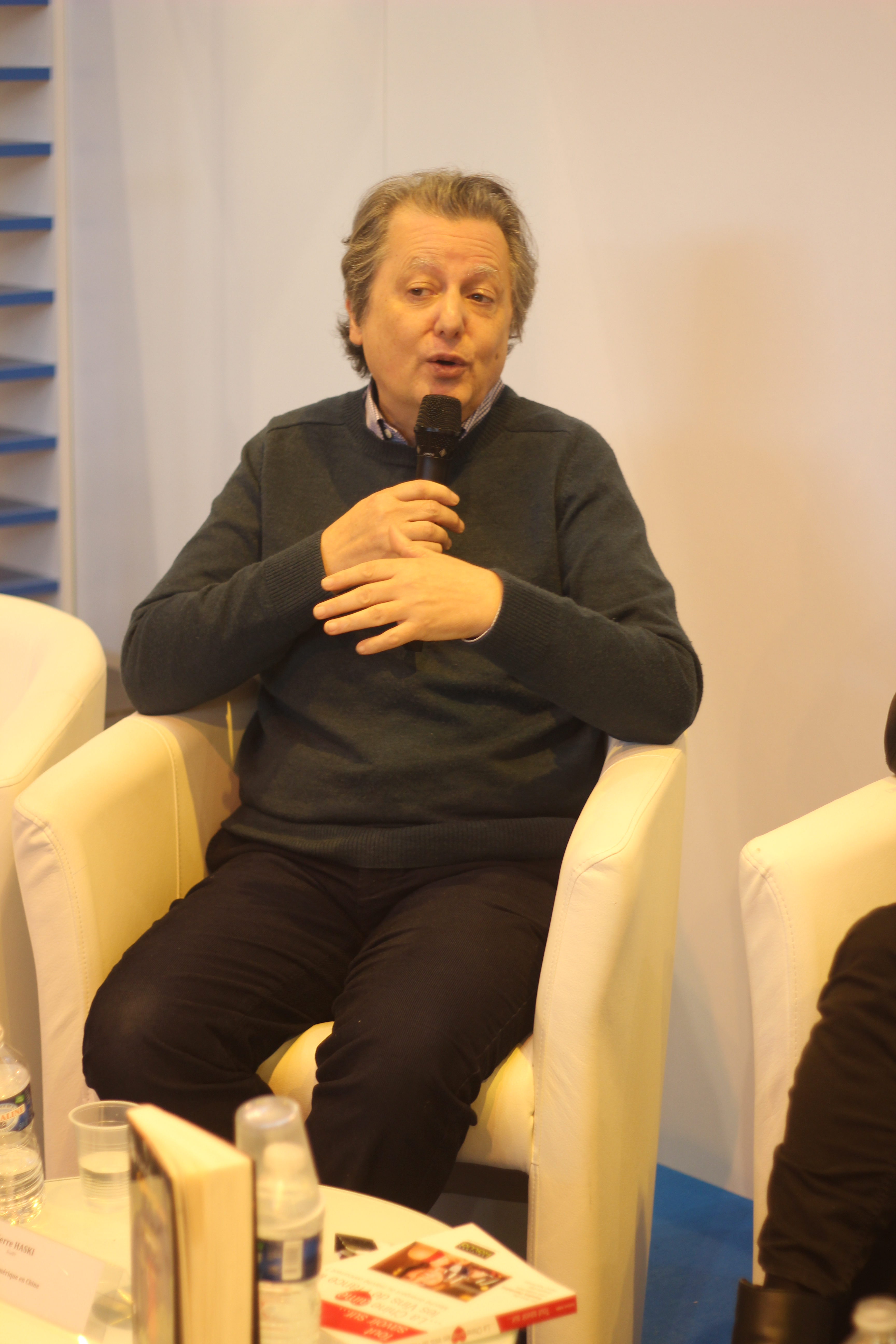 Paris Book Fair, 21-24 March 2014.